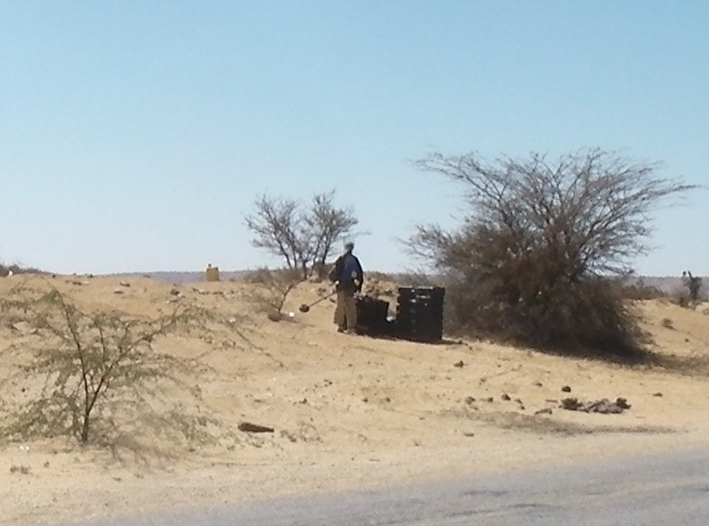 A HALO Trust demining operation underway northeast of Hargeisa, Somaliland. Unfortunately a photo from less of distance was not taken.